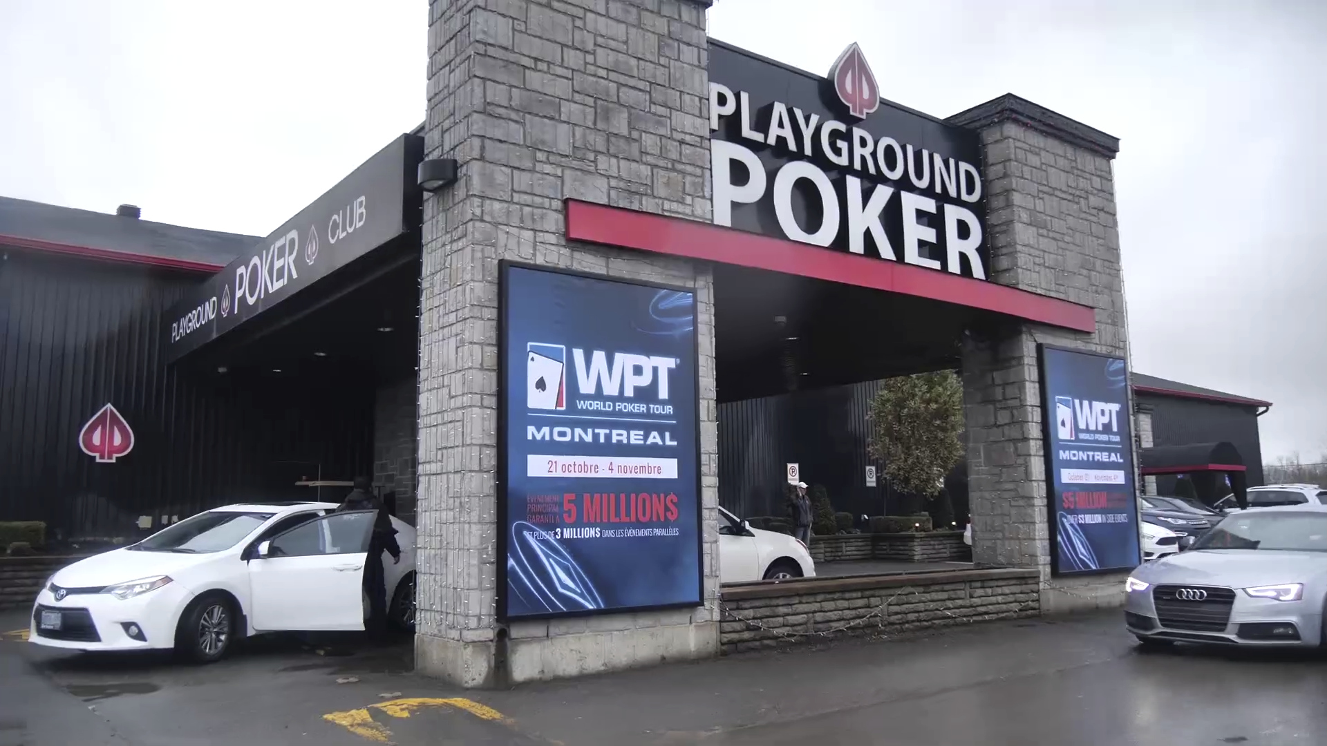 1500 QC-138 C, Kahnawake, QC J0L 1B0, Canada 97GV+PF Kahnawake, Quebec, Canada